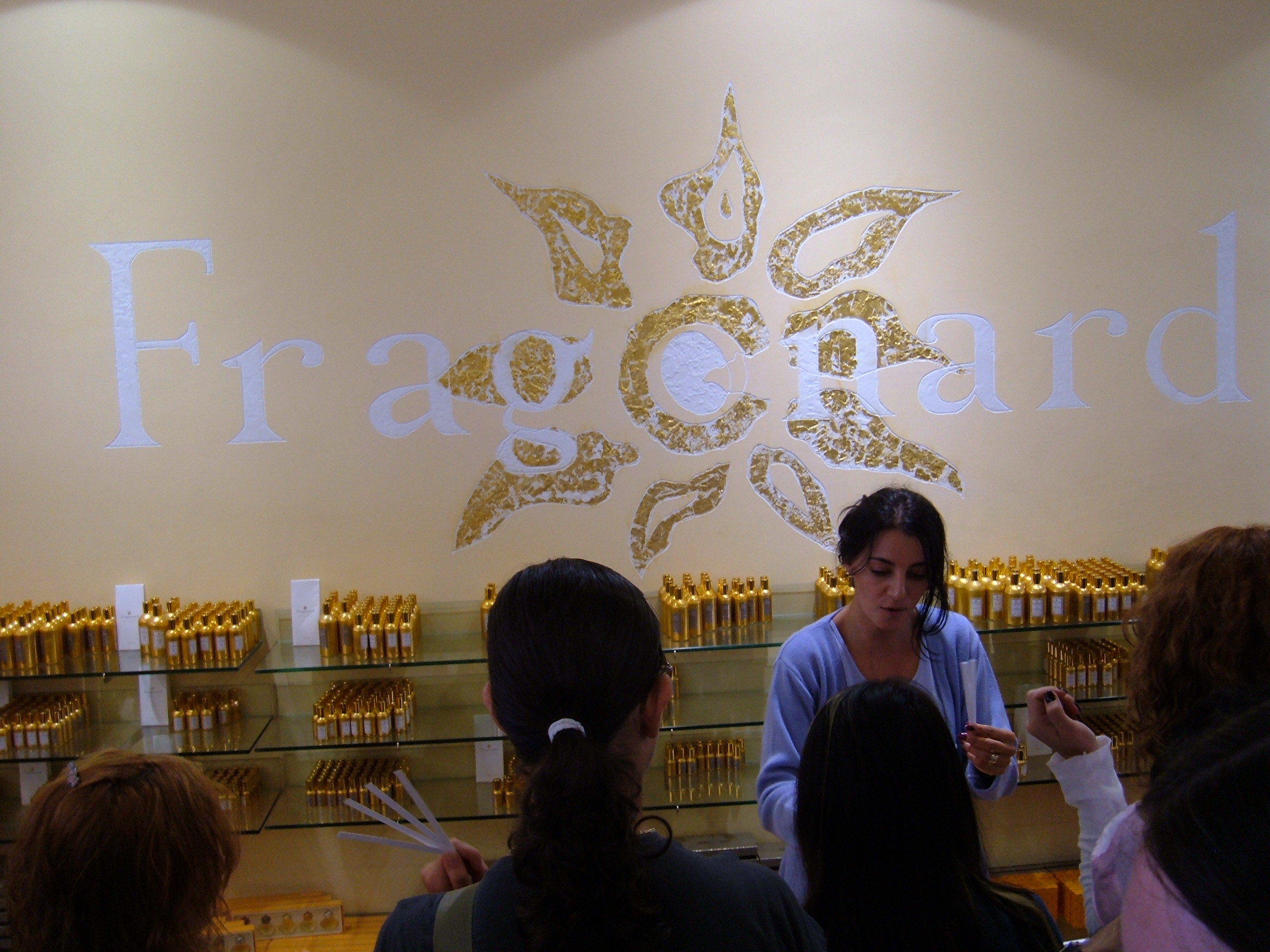 Perfumes being sampled at the Fragonard perfume factory in Èze, France.